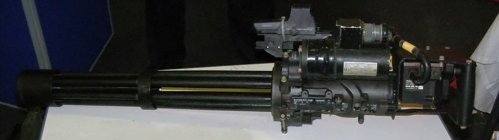 A minigun, placed on a table in a Royal Naval warship